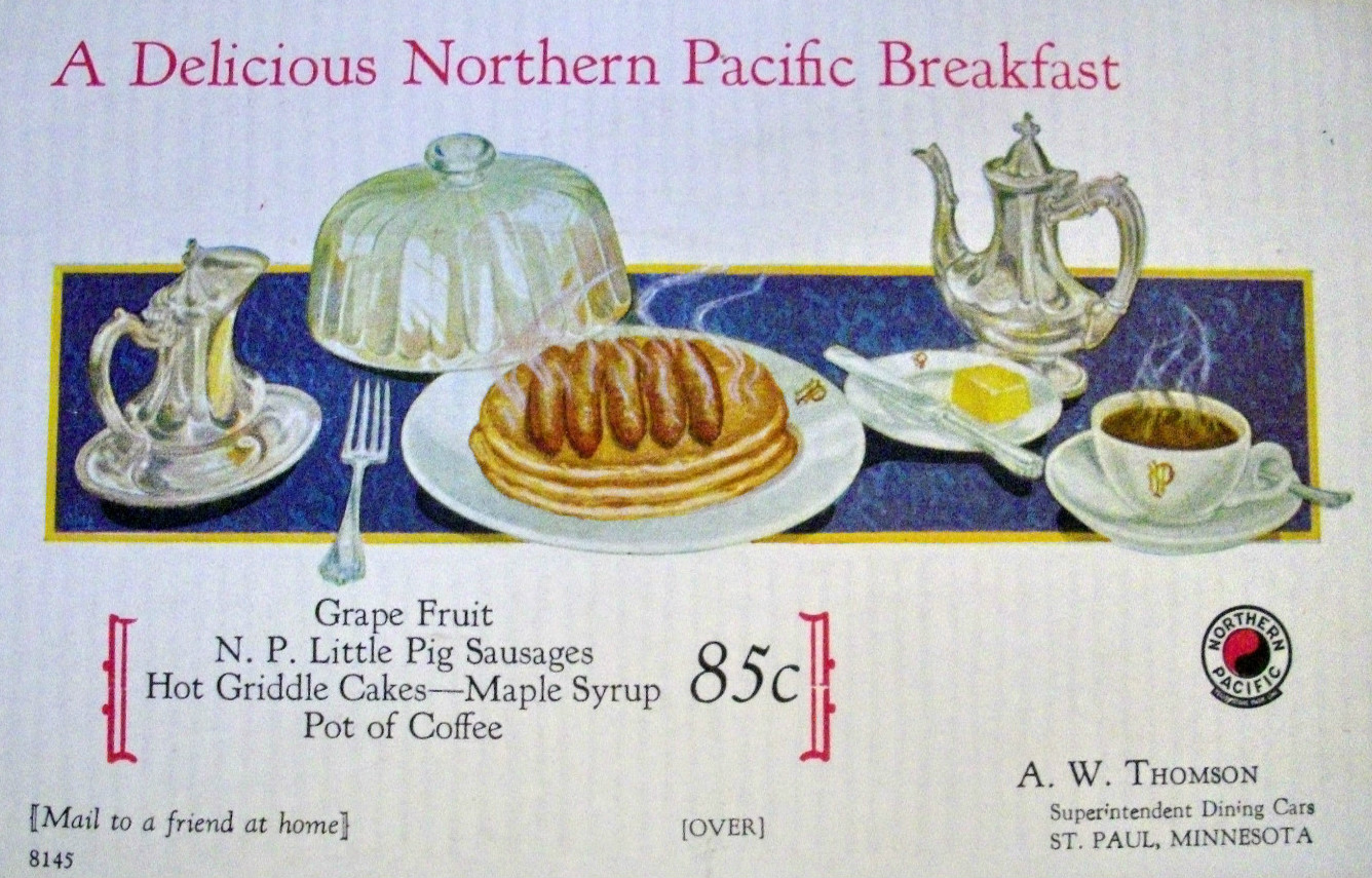 Postcard depiction of a breakfast served in the Northern Pacific Railway's dining cars.